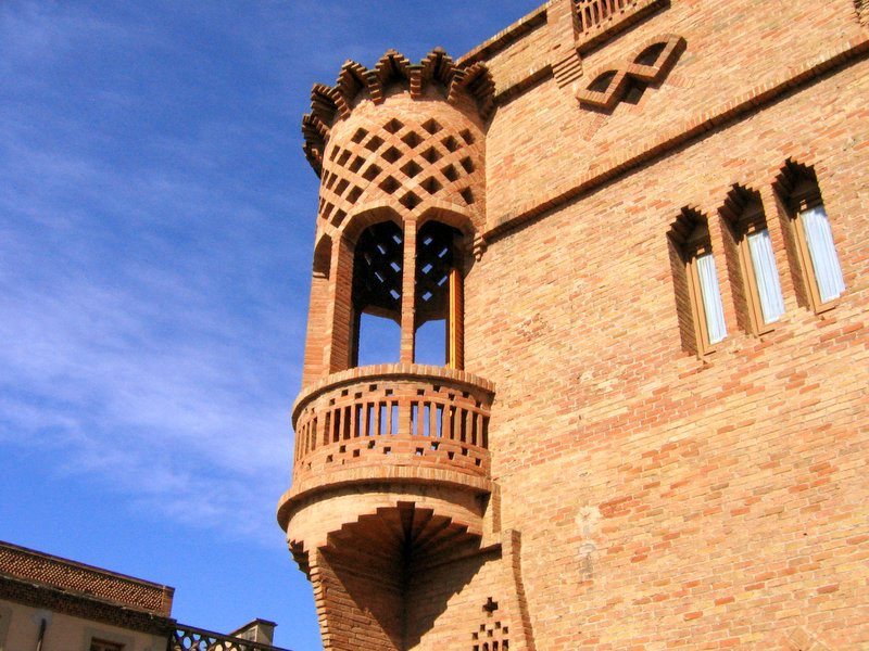 Detail from the Ca l’Espinal by Joan Rubió Bellver. Located in the Colònia Güell in Santa Coloma de Cervelló, Baix Llobregat, Catalonia (Spain).